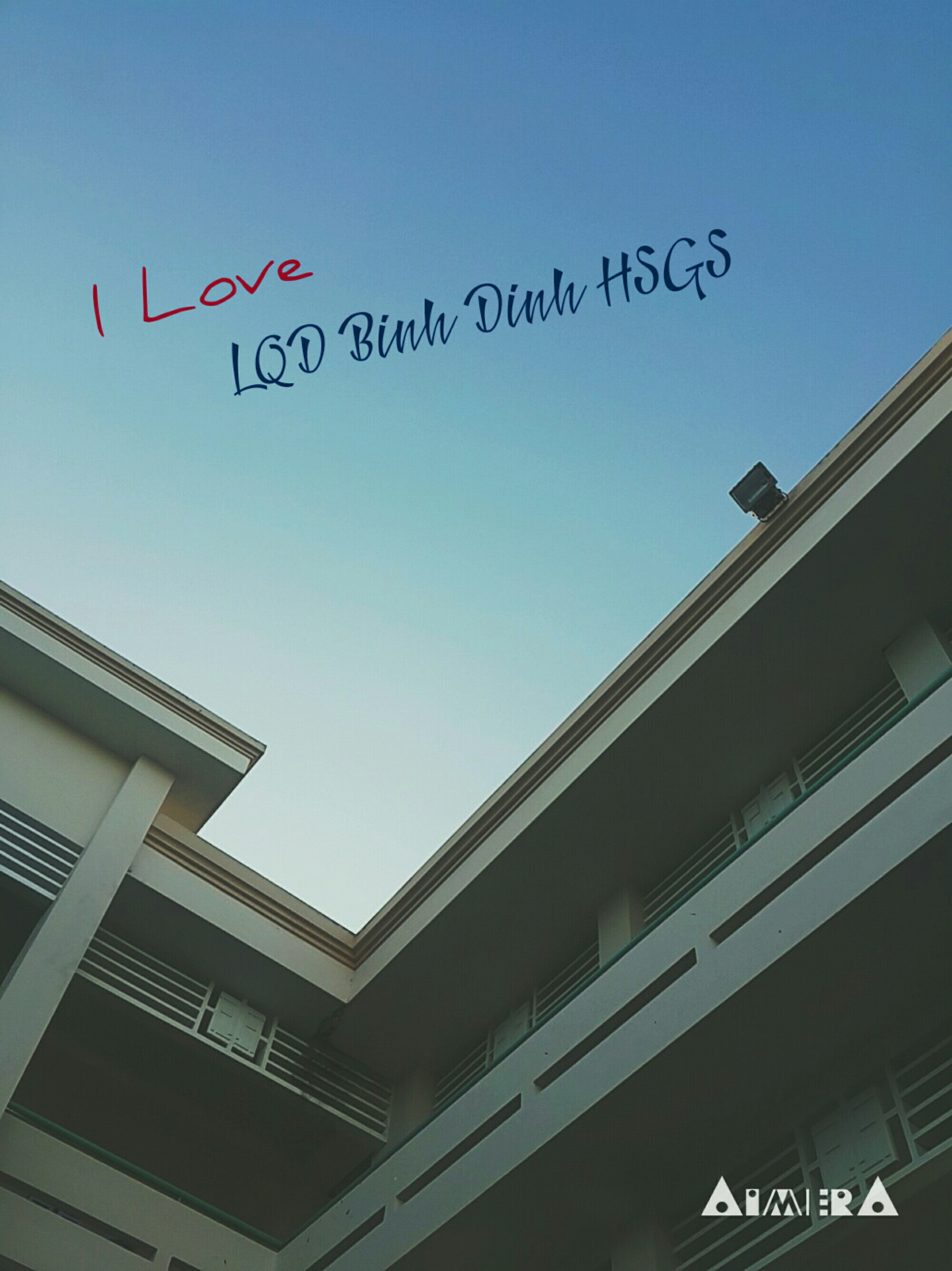 caption của học sinh Chuyên Lê Quý Đôn - Đất võ